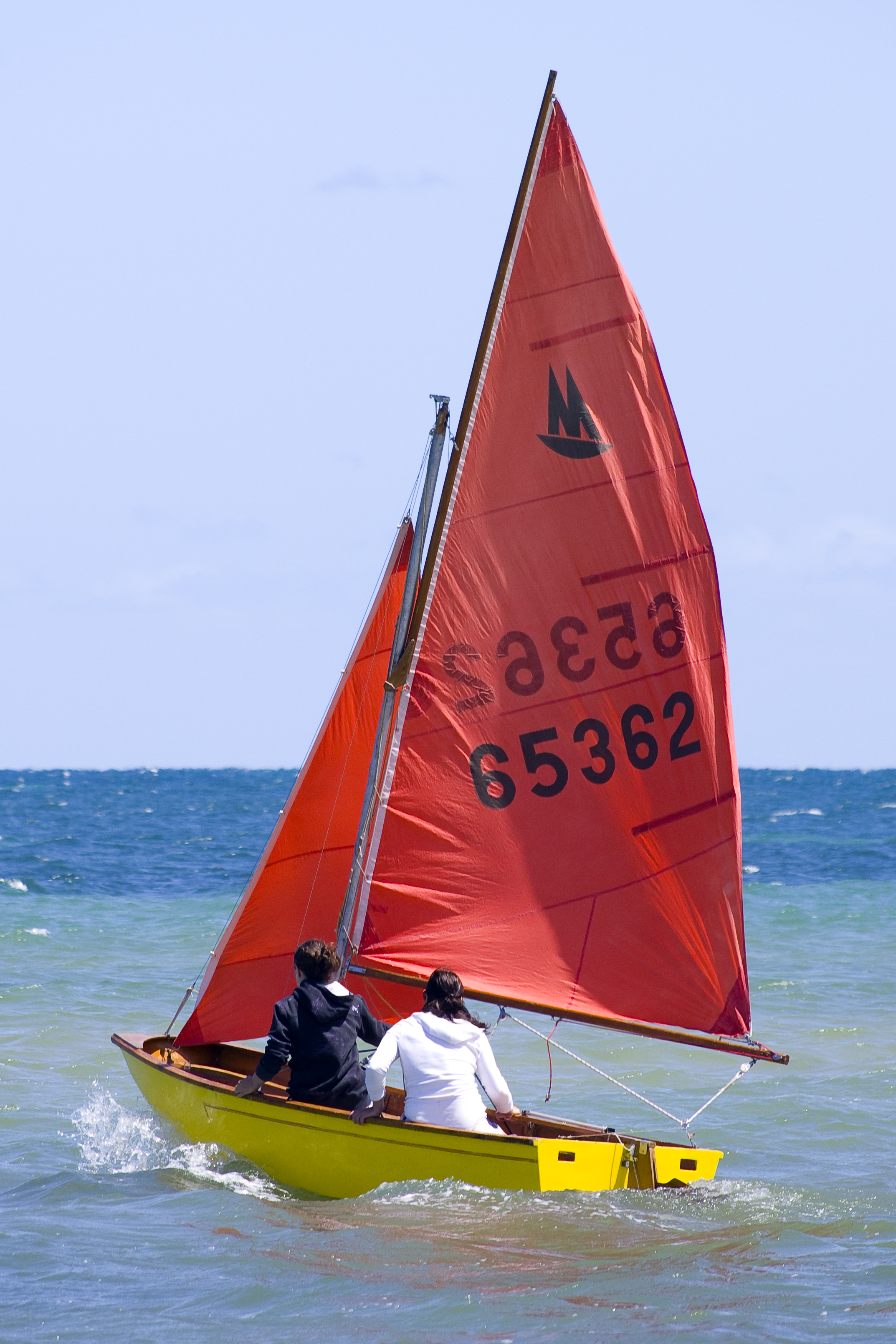 A Mirror dinghy being sailed by two girls as they depart from the beach at Brighton, South Australia.